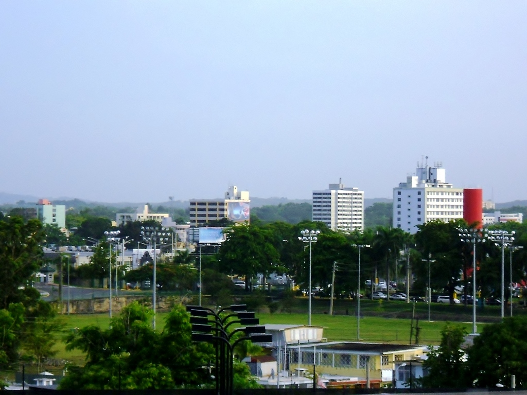 City seen from UPRM Other information No